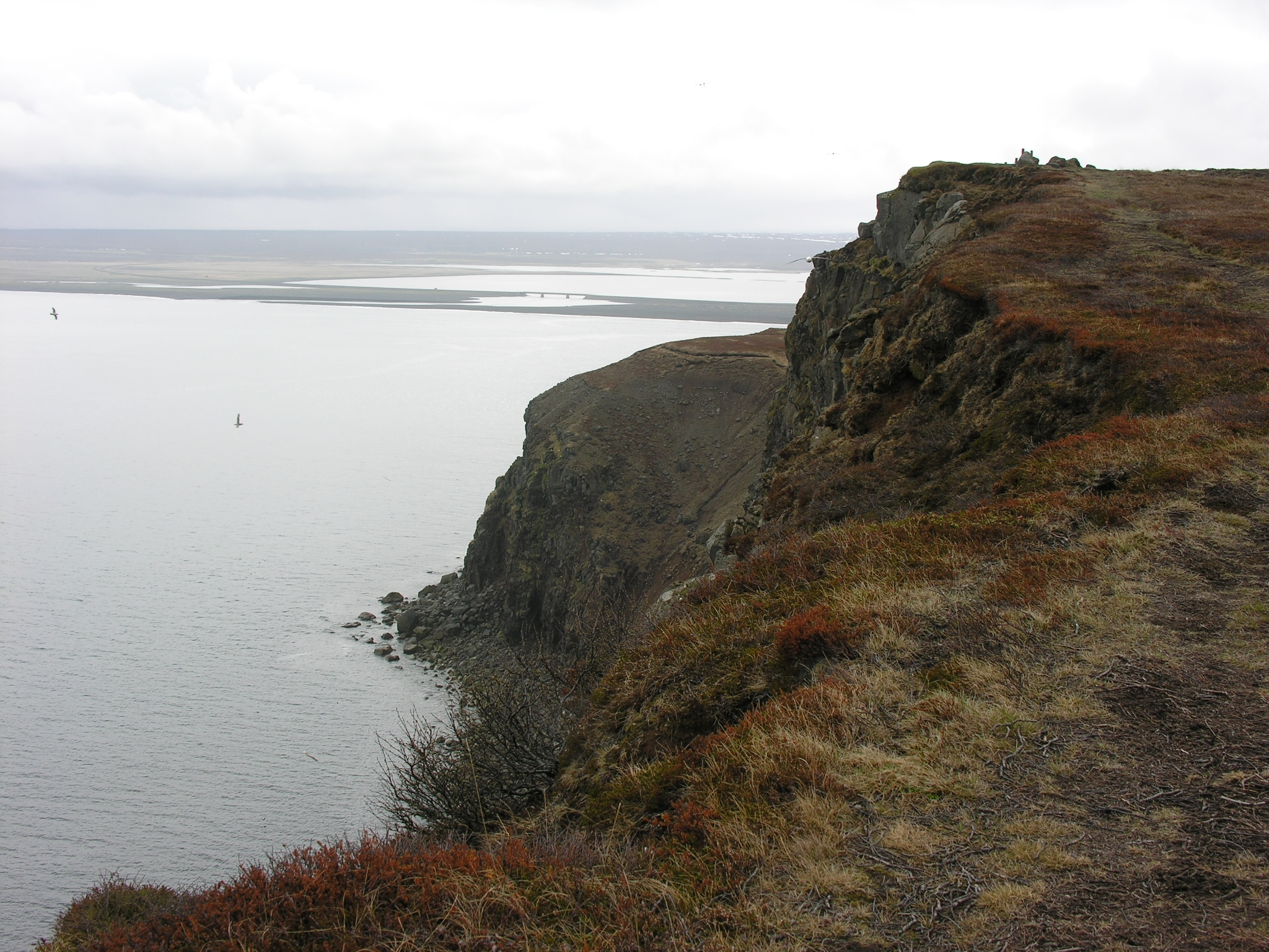 Iceland, along Road 85 between Húsavík and Ásbyrgi